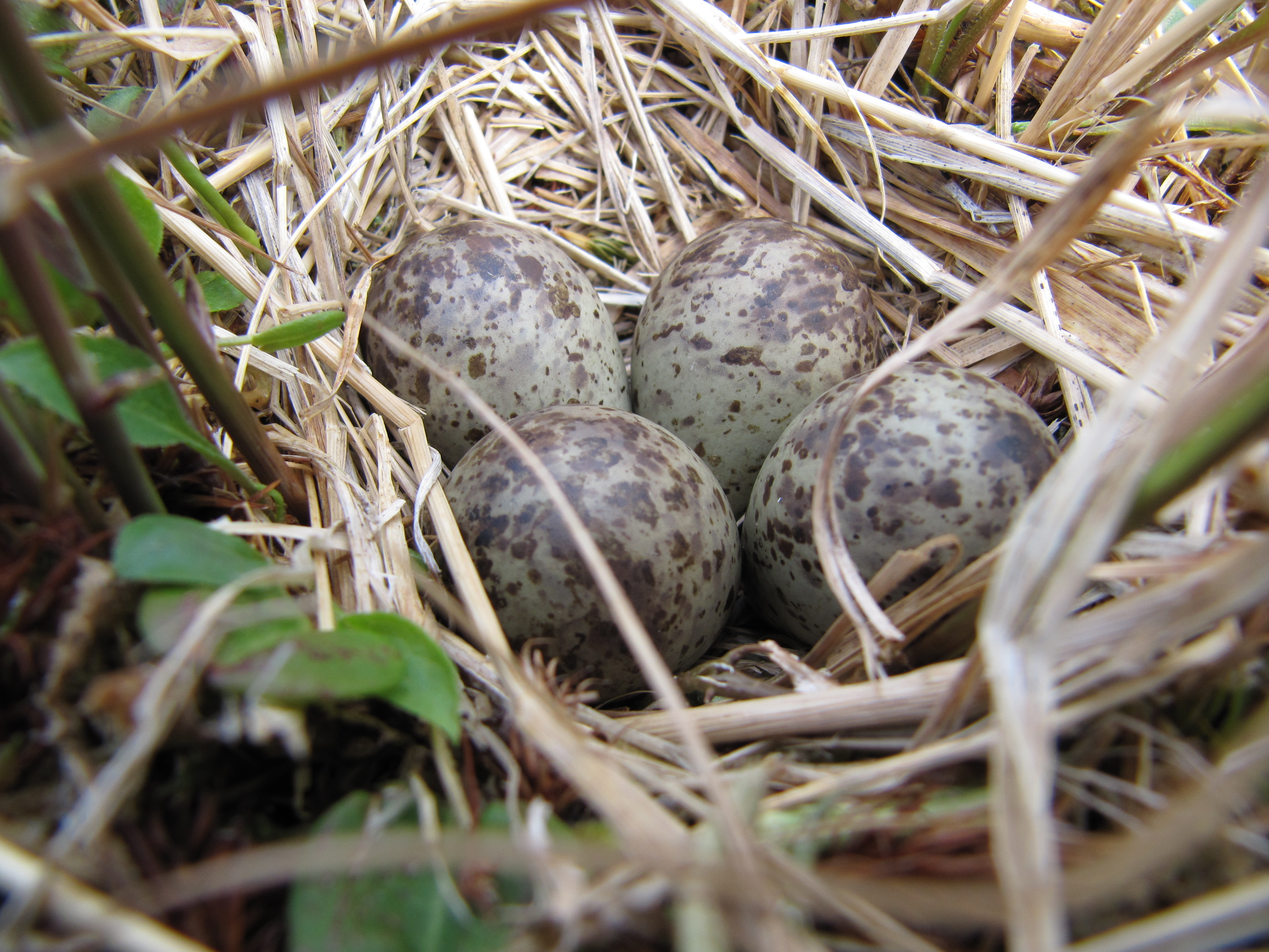 Photo of Calidris temminckii nest in Pitsusjärvi, Enontekiö, Finland